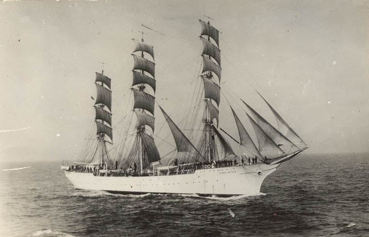 Suomen Joutsen preparing for the fourth international school sailing.